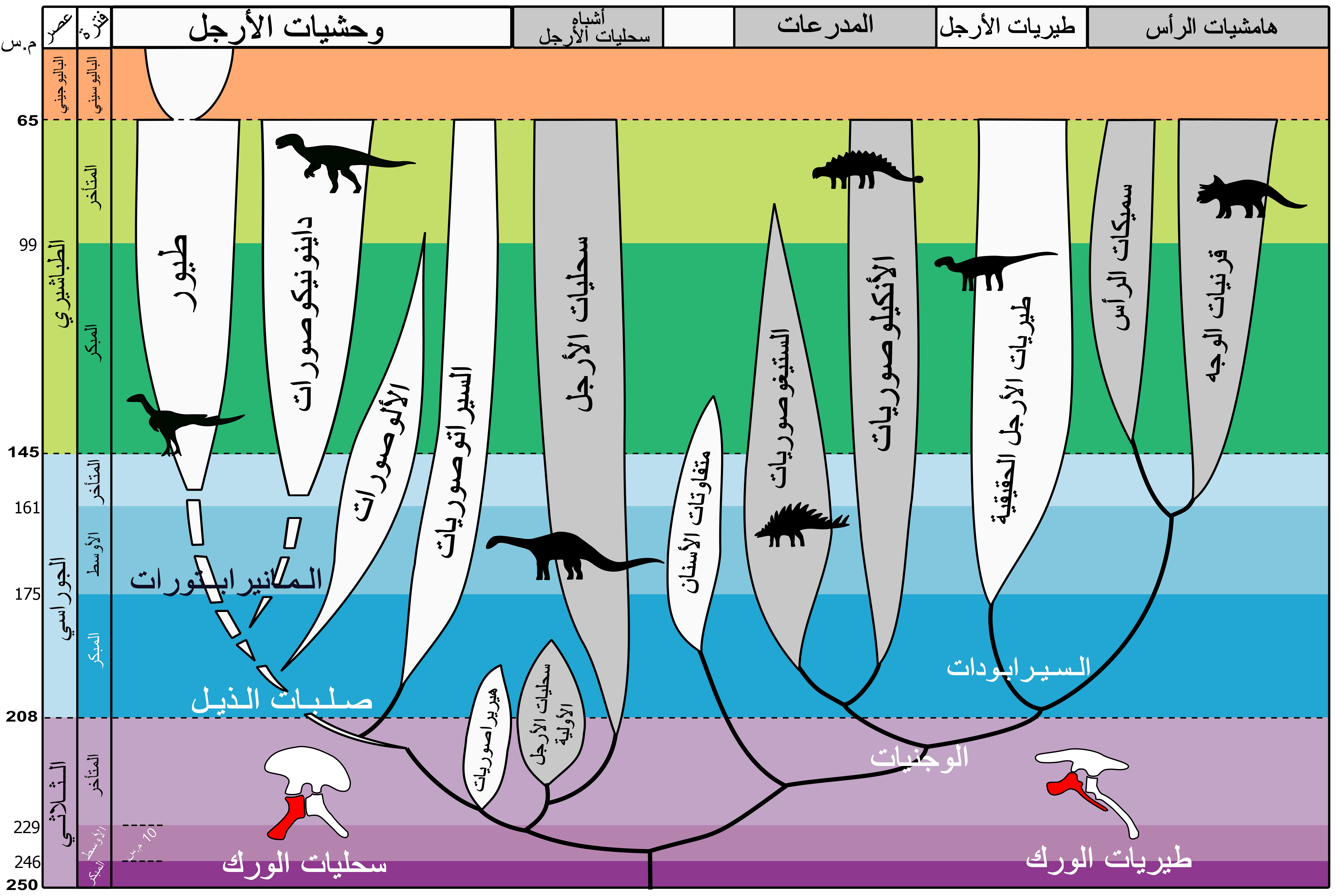 Evolution of dinosaurs. Typical silhouettes are shown in black. At the bottom of the image red colour shows the differences in the pubis bone. Drawing based on the Polish encyklopedia: Wielka Encyklopedia PWN, tom 7, str. 190, wydanie 2001-2005